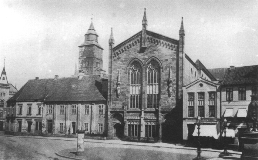 The Domkapitelhaus (“Chapter house of the cathedral”) at the Domsheide place in Bremen, Germany, with the hall building of theKünstlerverein (“Artists’ club”) built by Heinrich Müller (1819–1890) in the center of the picture. In the background the cathedral shortly before the reconstruction of the southern tower. The Domkapitelhaus was dstroyed by a major fire in 1915. Later the concert hall Die Glocke was built on this spot.